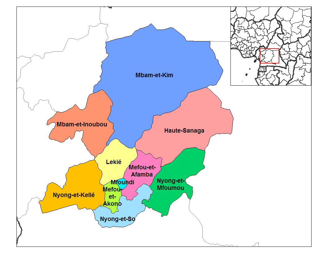 Map of the divisions of Centre province in Cameroon. Created by Rarelibra 19:53, 1 September 2006 (UTC) for public domain use, using MapInfo Professional v8.5 and various mapping resources.